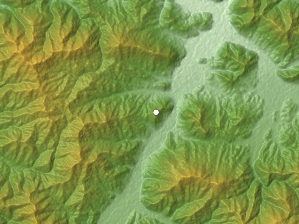 Around Takeda Castle in Hyogo Prefecture, Honshu, Japan.